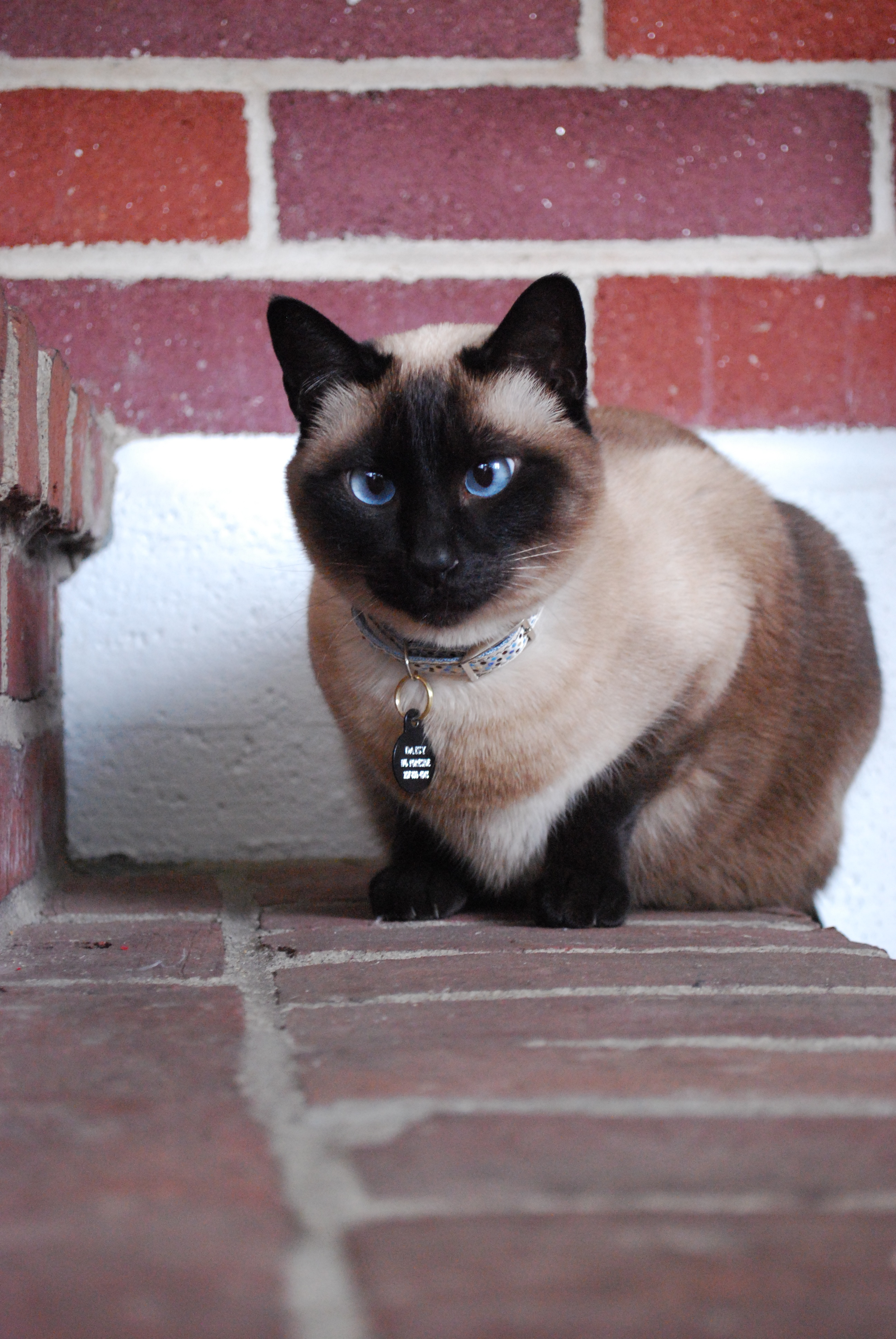 Seal point Siamese cat